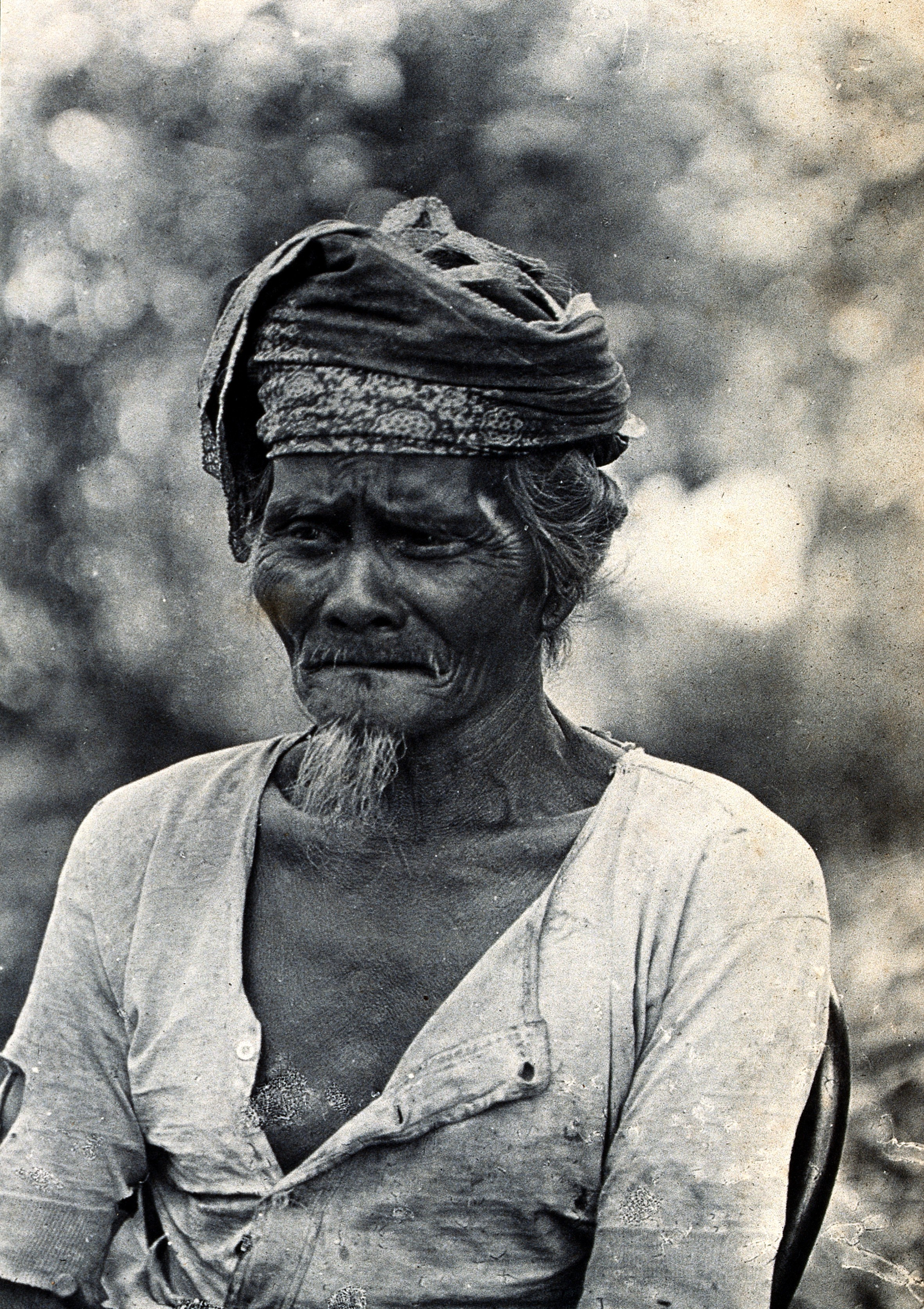 Sarawak: a native Land Dayak chief. Photograph. Iconographic Collections Keywords: Tribe; Population Groups; Borneo; Tribal; Charles Hose; Anthropology; Malaysia; Ethnography